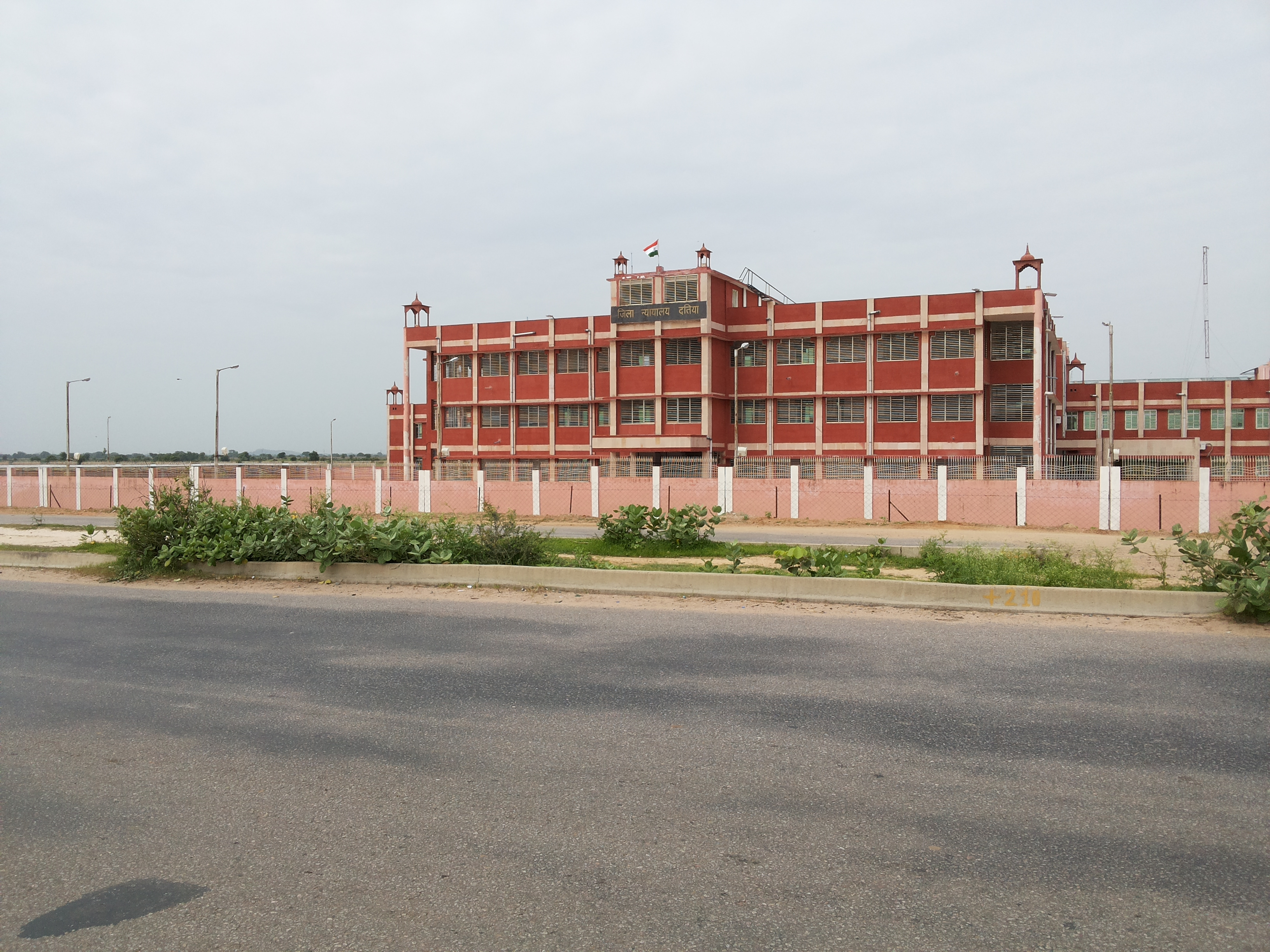 The image is of District Court at RamNagar in Datia District and near to Gwalior Road.